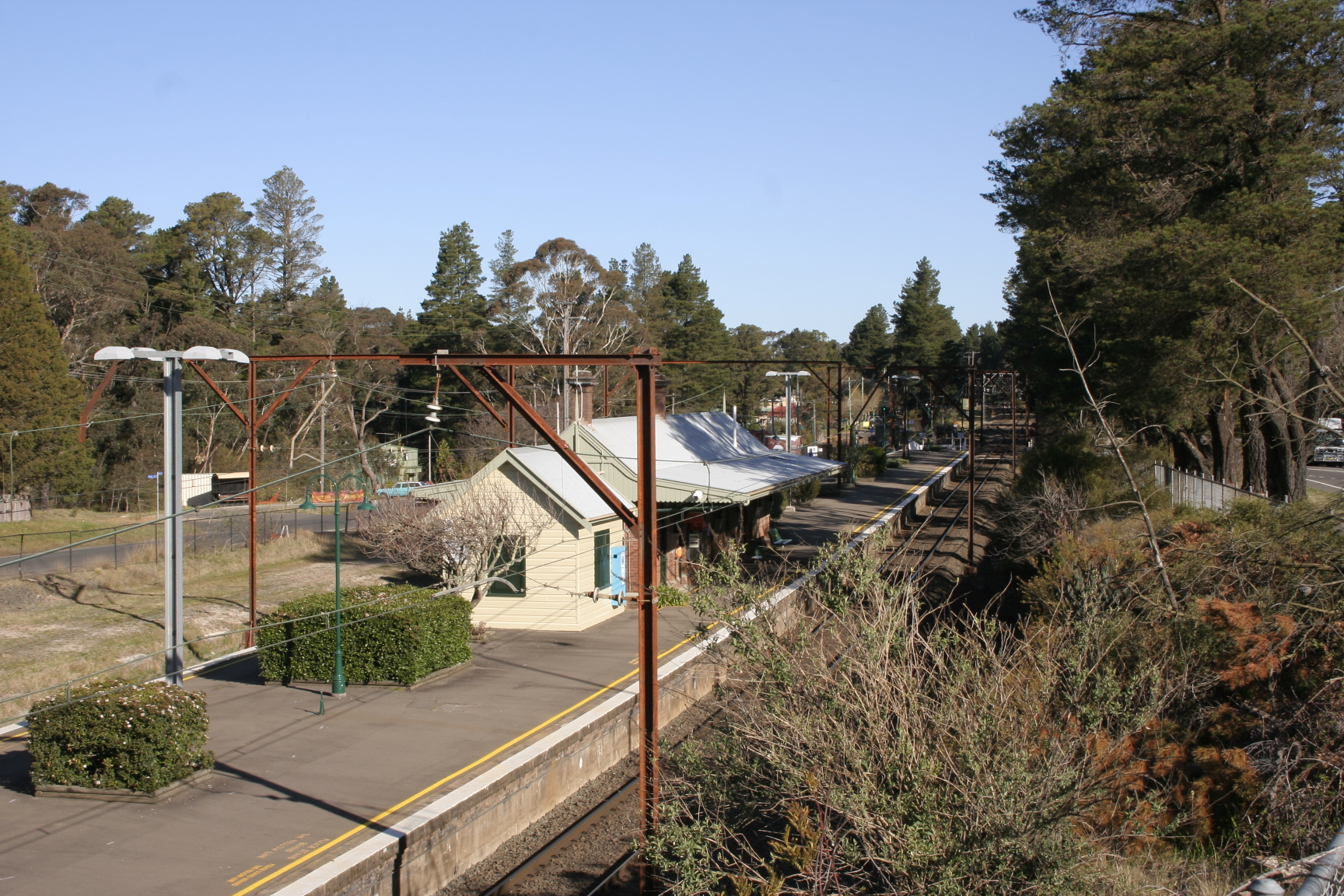 Meadlow_Bath_station